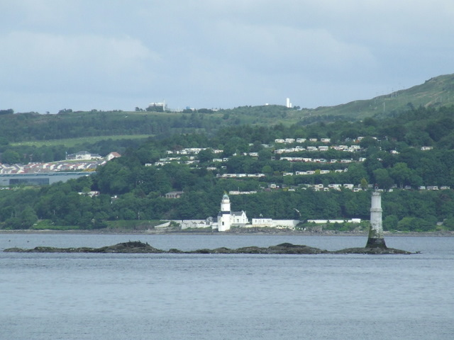 The Gantocks. Gantock Rocks lighthouse in Dunoon's West Bay, with Cloch lighthouse and caravan park visible across the Clyde. The white structure on the horizon is part of the National Semiconductor factory at Larkfield in Greenock 63468.